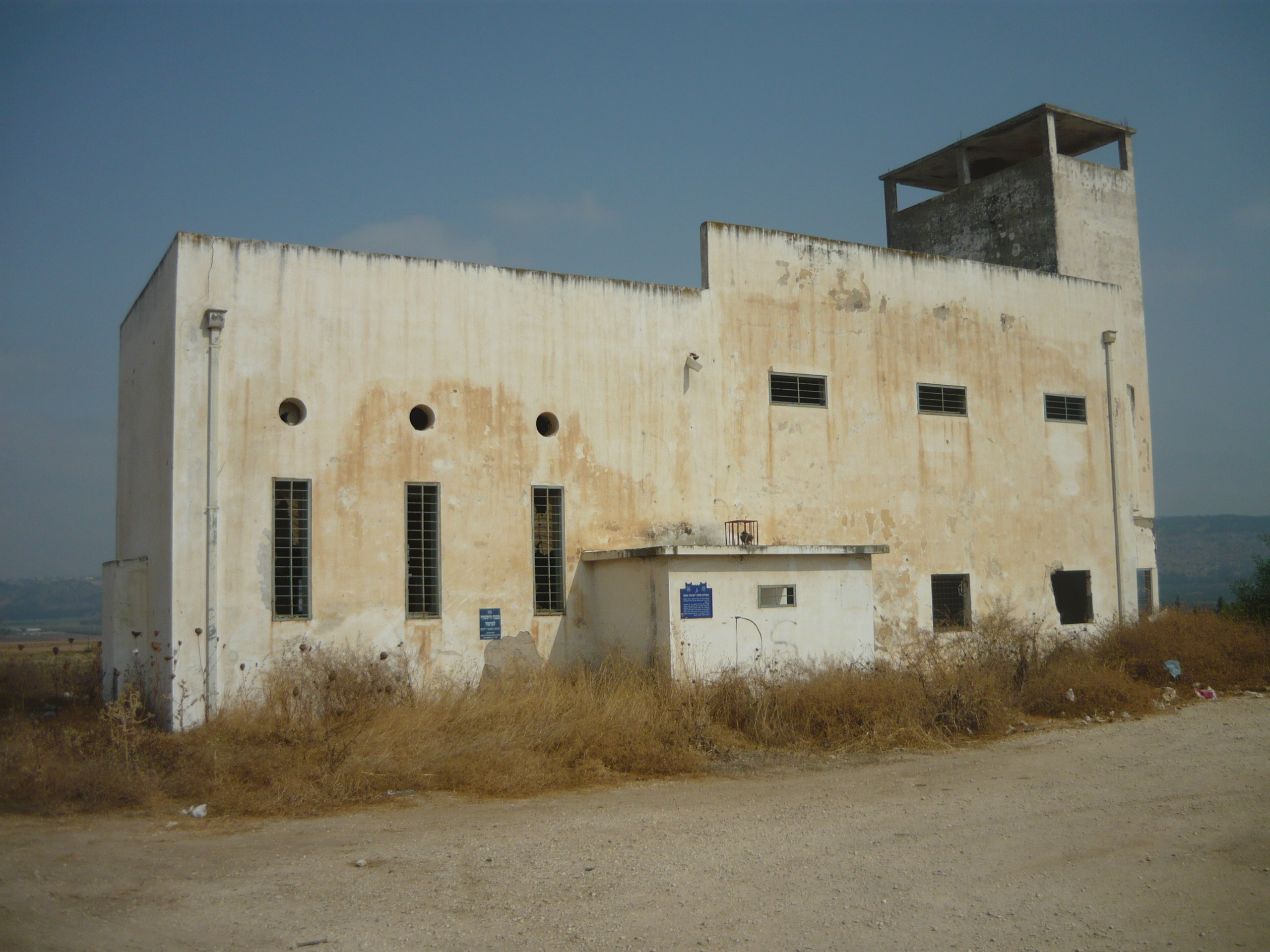 Mahane Israel fort near Kibbutz Dovrat מצודת מחנה ישראל ליד קיבוץ דברת